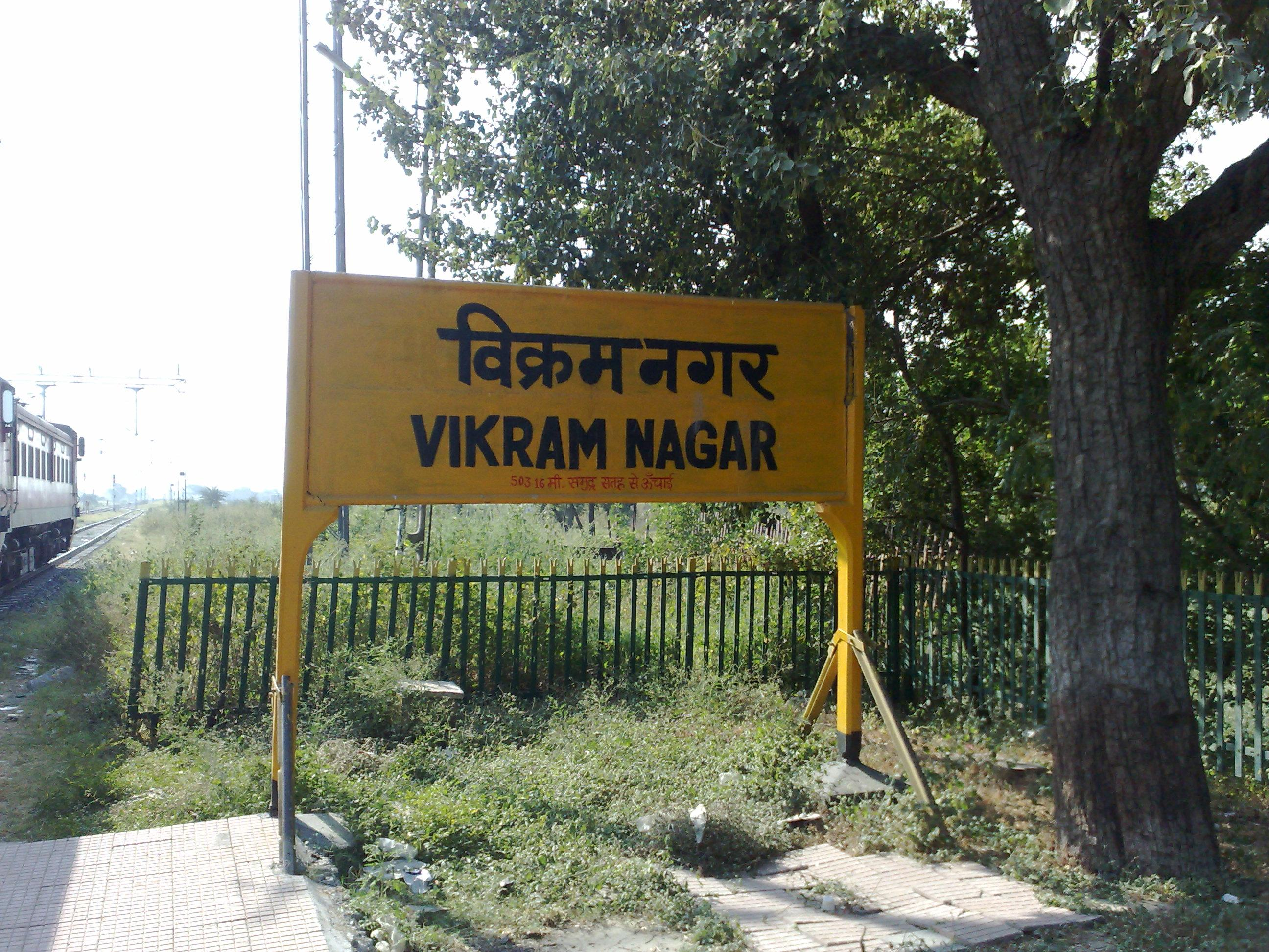 Vikramnagar